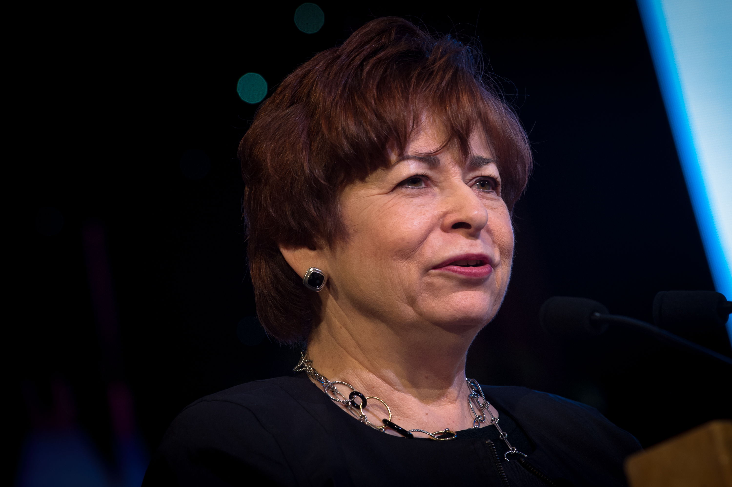 Maxine Clark from Build-A-Bear at Disney Social Media Moms Conference